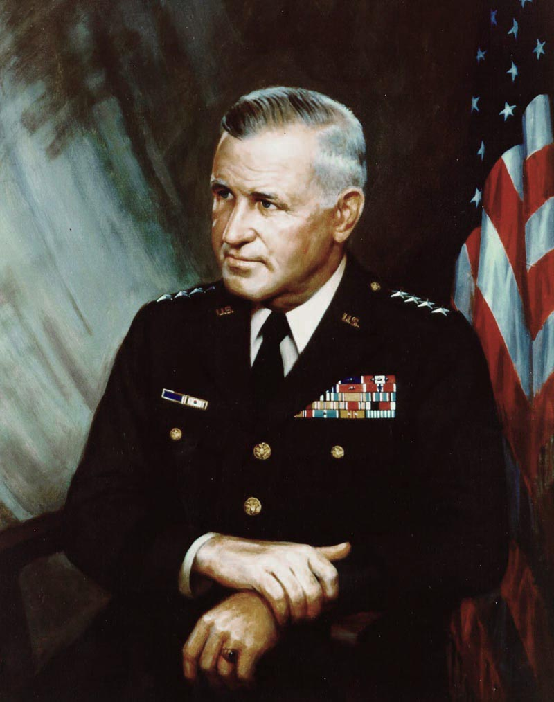 U.S. Army General Creighton W. Abrams, Jr., Chief of Staff of the U.S. Army.